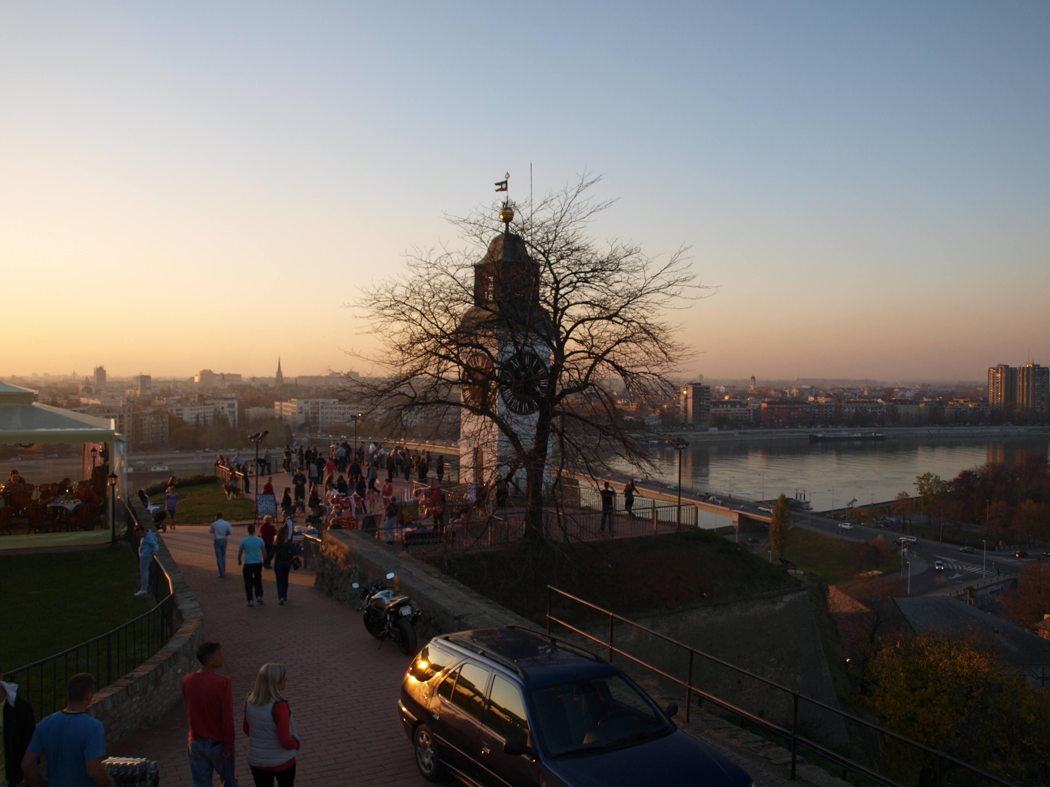 Novi Sad and clock from Petrovaradin fortress, Serbia.